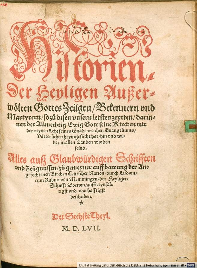 Title page of Historien der Heyligen volume VI (Strassburg, 1557) by Ludwig Rabus.